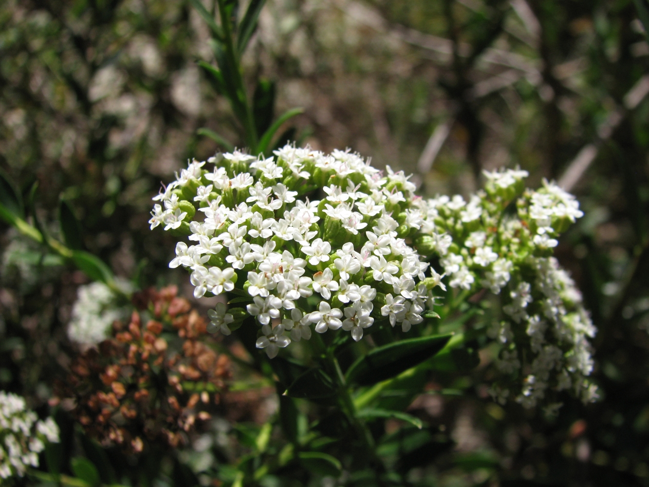 Platysace lanceolata (cultivated, labelled) Maranoa Gardens, Balwyn, Victoria, Australia